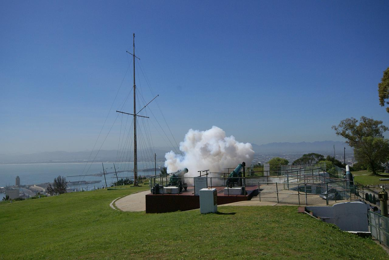 Photograph showing Noon Gun firing, Signal Hill, Cape Town, South Africa.